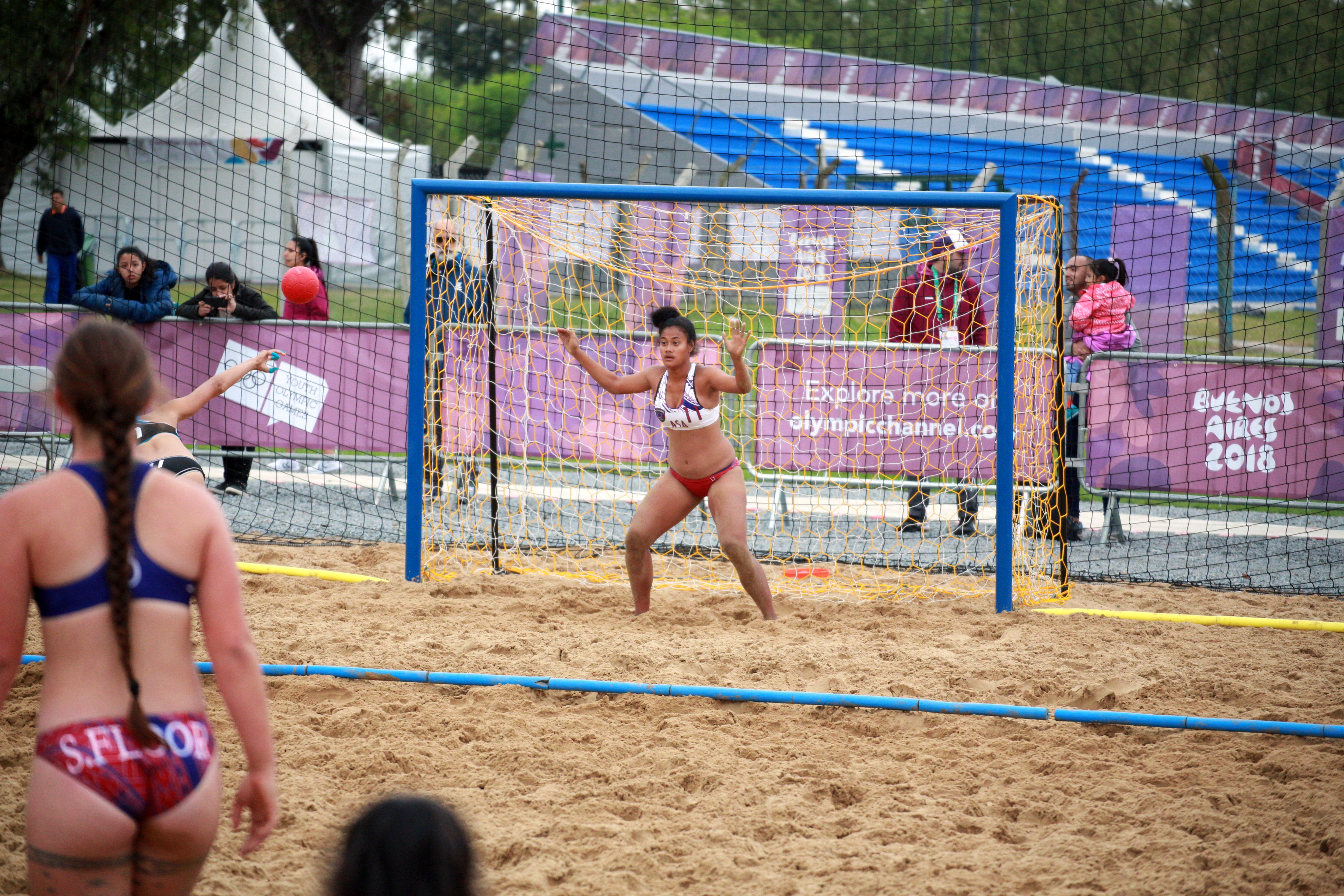 Beach handball at the 2018 Summer Youth Olympics at 12 October 2018 – Girls Consolation Round – American Samoa-Hong Kong 0:2